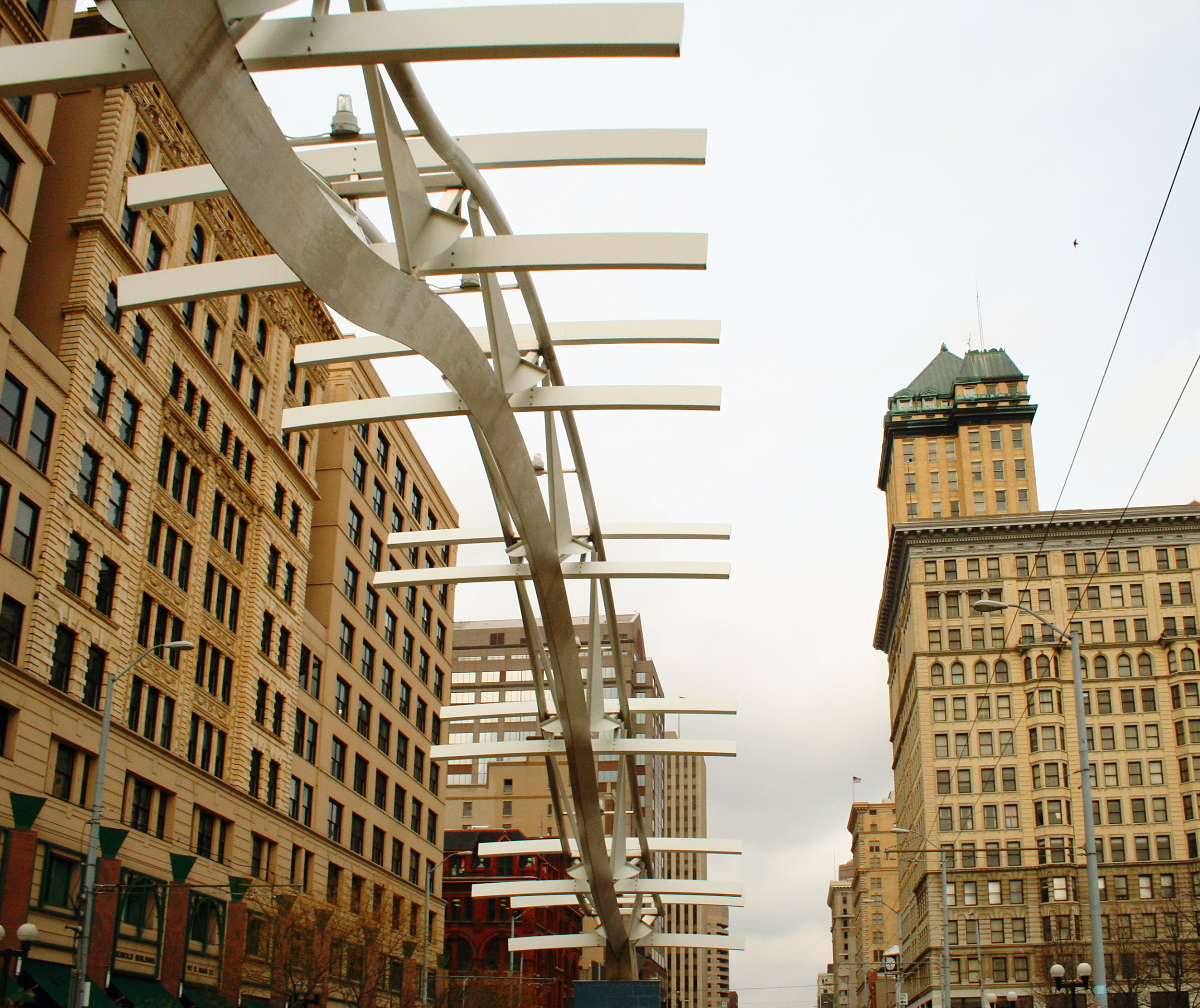 Public sculpture Flyover (David Evans Black, 1996) in Dayton, Ohio. The sculpture tracks the path of the Wright Brothers first powered airplane flight. Photo shot by Derek Jensen (Tysto), 2006-01-30